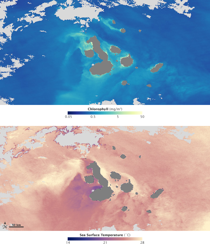 The Cromwell Current stirs up the ocean on the west (leeward) side of the Galapagos, and brings cool, nutrient-rich water up from the ocean depths (Upwelling). The nutrients nourish phytoplankton, which form the base of the ocean’s food web. Many fish, birds, and marine mammals depend on the phytoplankton. The bottom image shows sea surface temperature, cool up welling waters are coloured purple. Thriving phytoplankton populations are indicated by high chlorophyll concentrations (top image), coloured green and yellow. Images acquired on March 2, 2009.